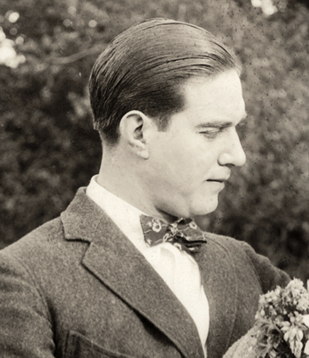 Silent film actor David Butler in a detail from a scene still for the 1919 drama Better Times.